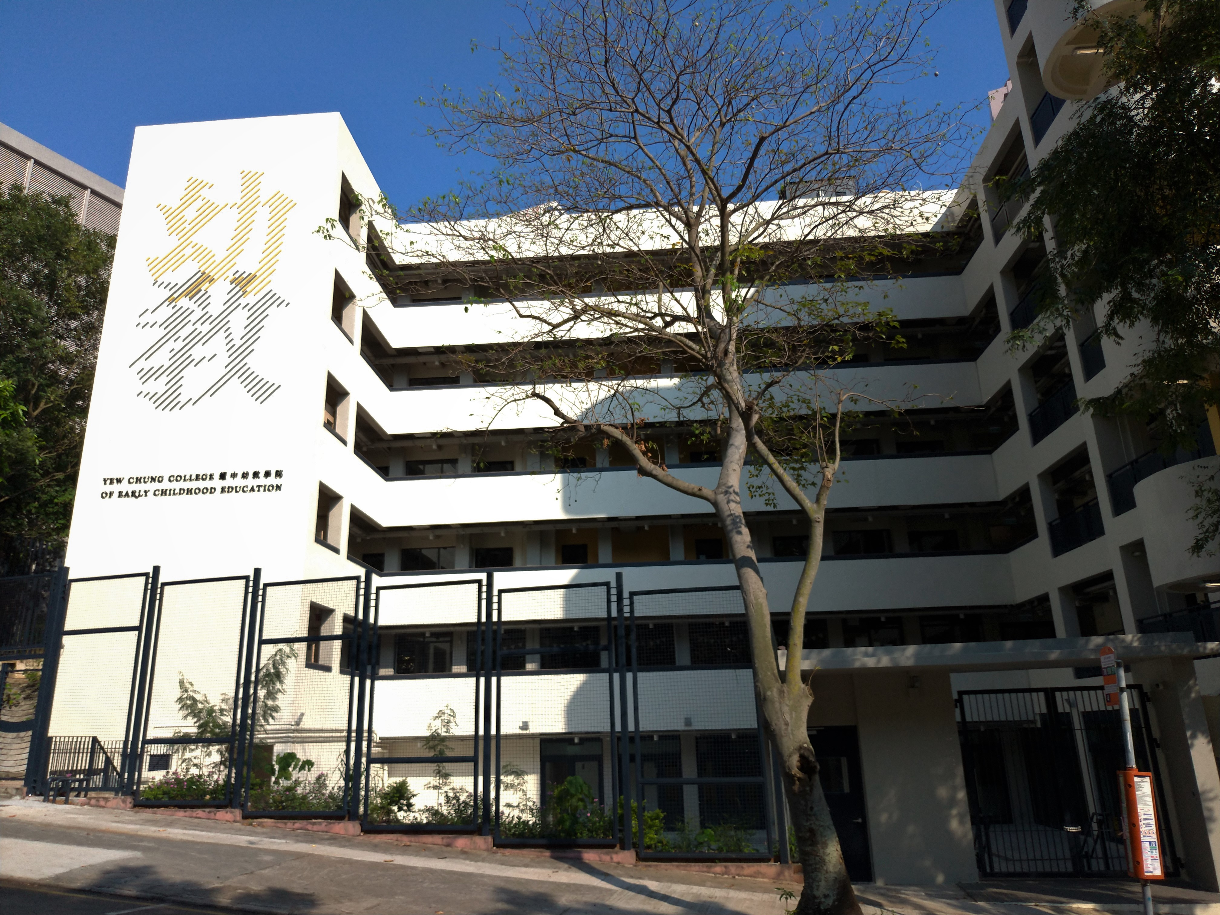 YCCECE - Campus